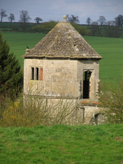 Late 16th-century dovecote, Brooke Priory, Rutland